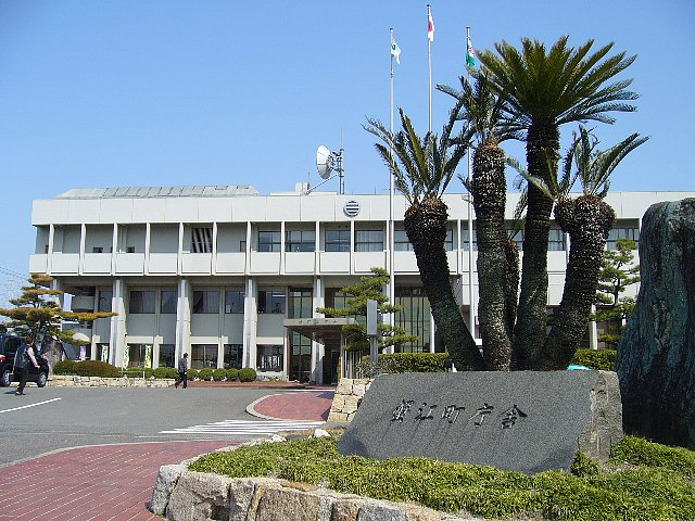 Town office of Kanie, Aichi prefecture, Japan